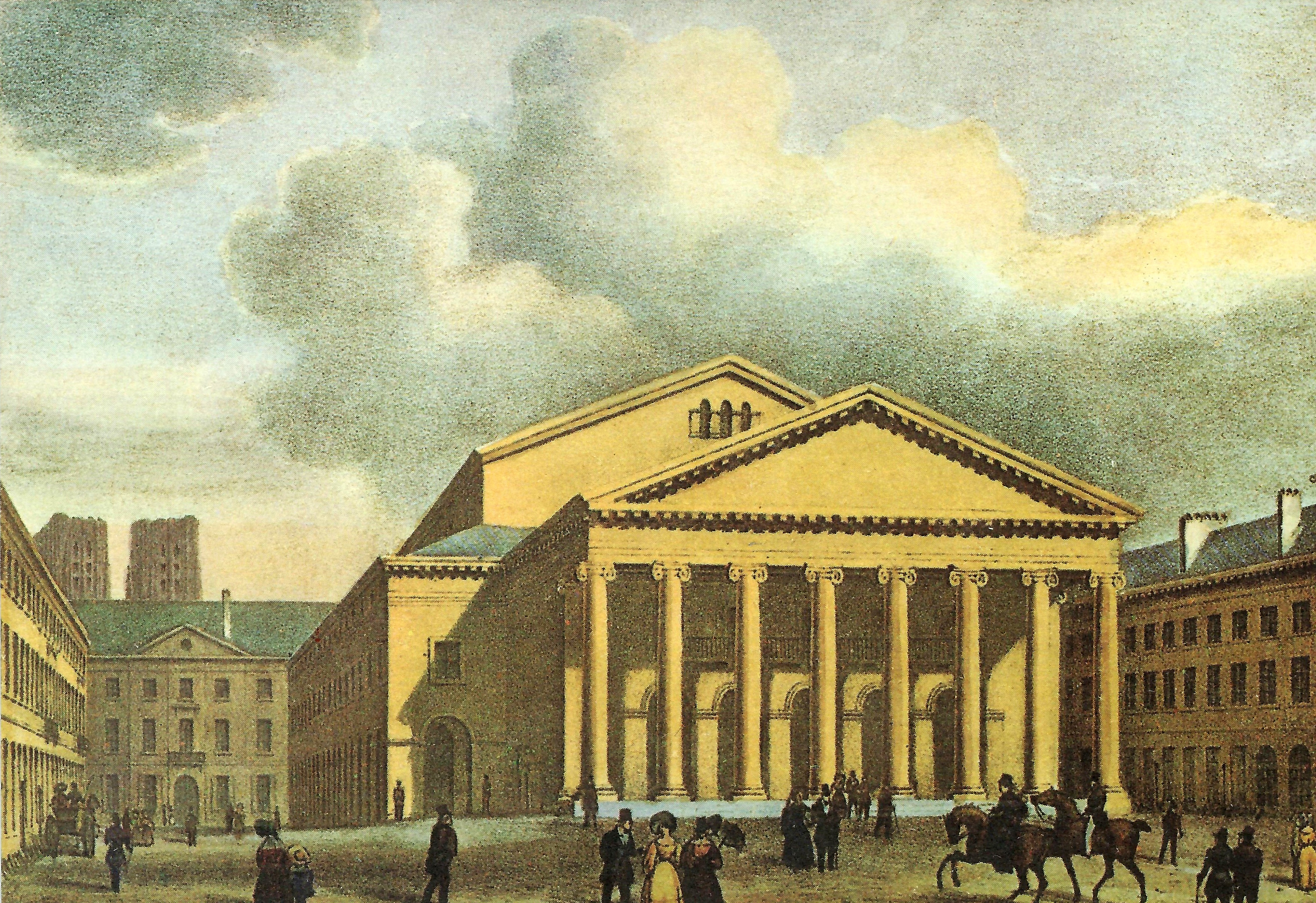 Postcard depicting a 19th century painting of the Royal Mint theater